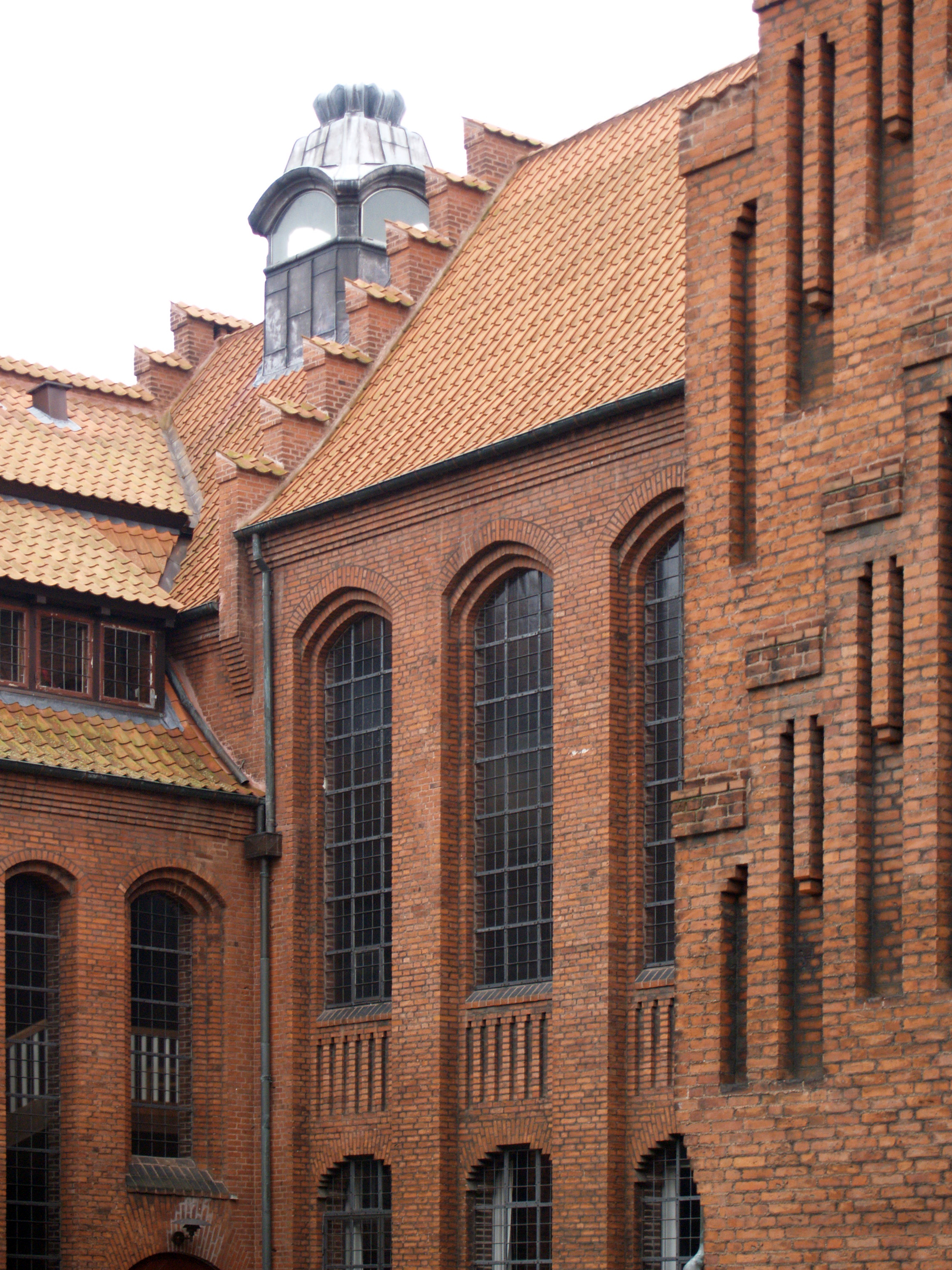 anna Church (1911-1928) in the Outer Nørrebro district of Copenhagen, Denmark Aarchitect: p.v. jensen-klint (1853-1930).